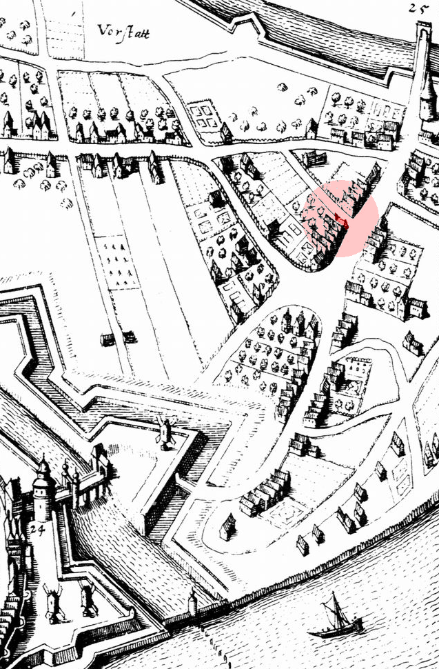 Bremen: Ostertorsteinweg in mid 17th century. Today, the house marked in red is the oldest house of the suburb, either already the same as depicted here, or rebuilt in the 18th century. All other houses were changed for more urban terrace houses in the 19th century.